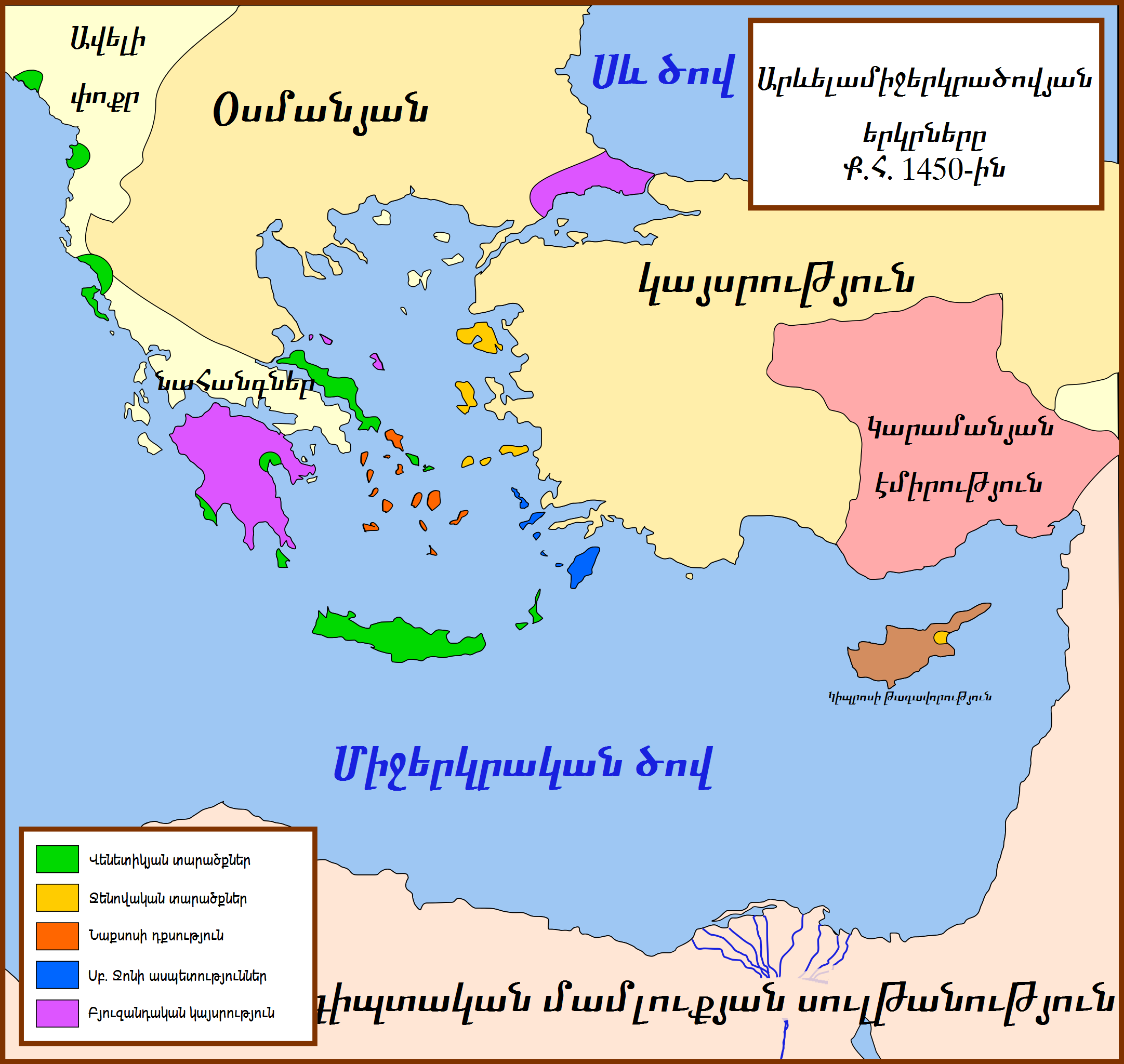 A political map of the eastern Mediterranean Sea, in 1450.